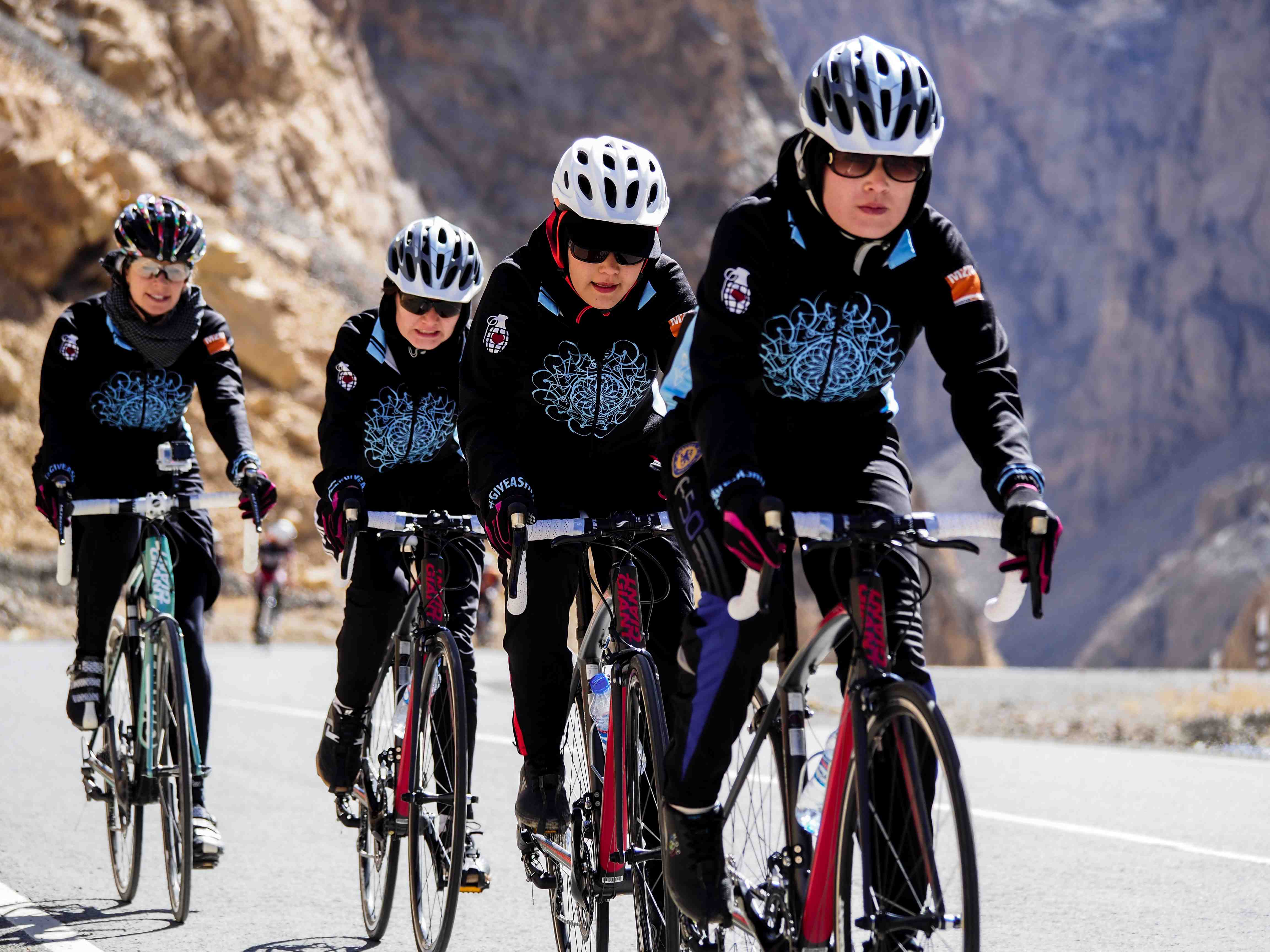 Members of the Afghanistan Women's Cycling Team in 2014